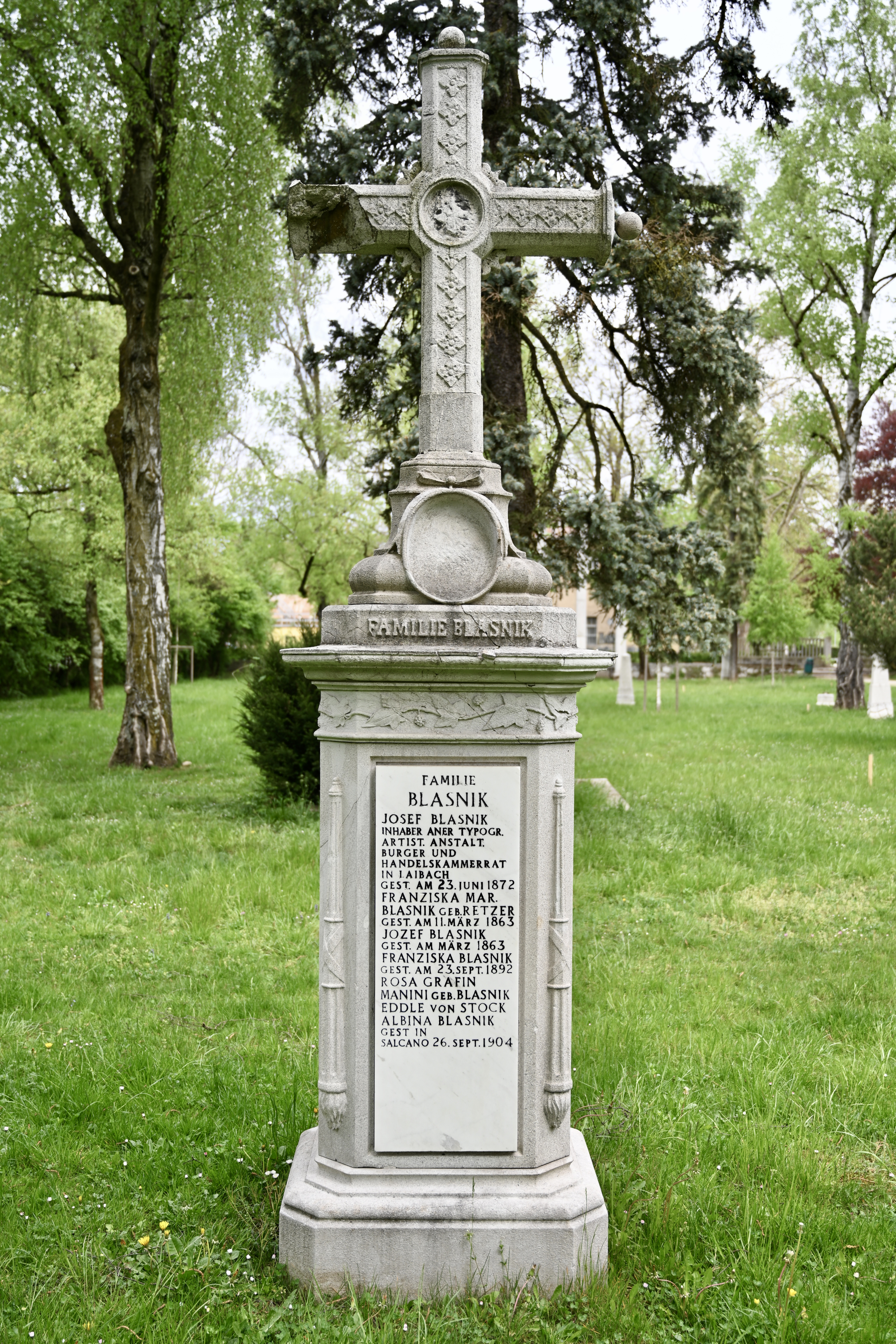 Tombstone of Jožef Blaznik, Slovenian printer and publisher, at Navje in Ljubljana